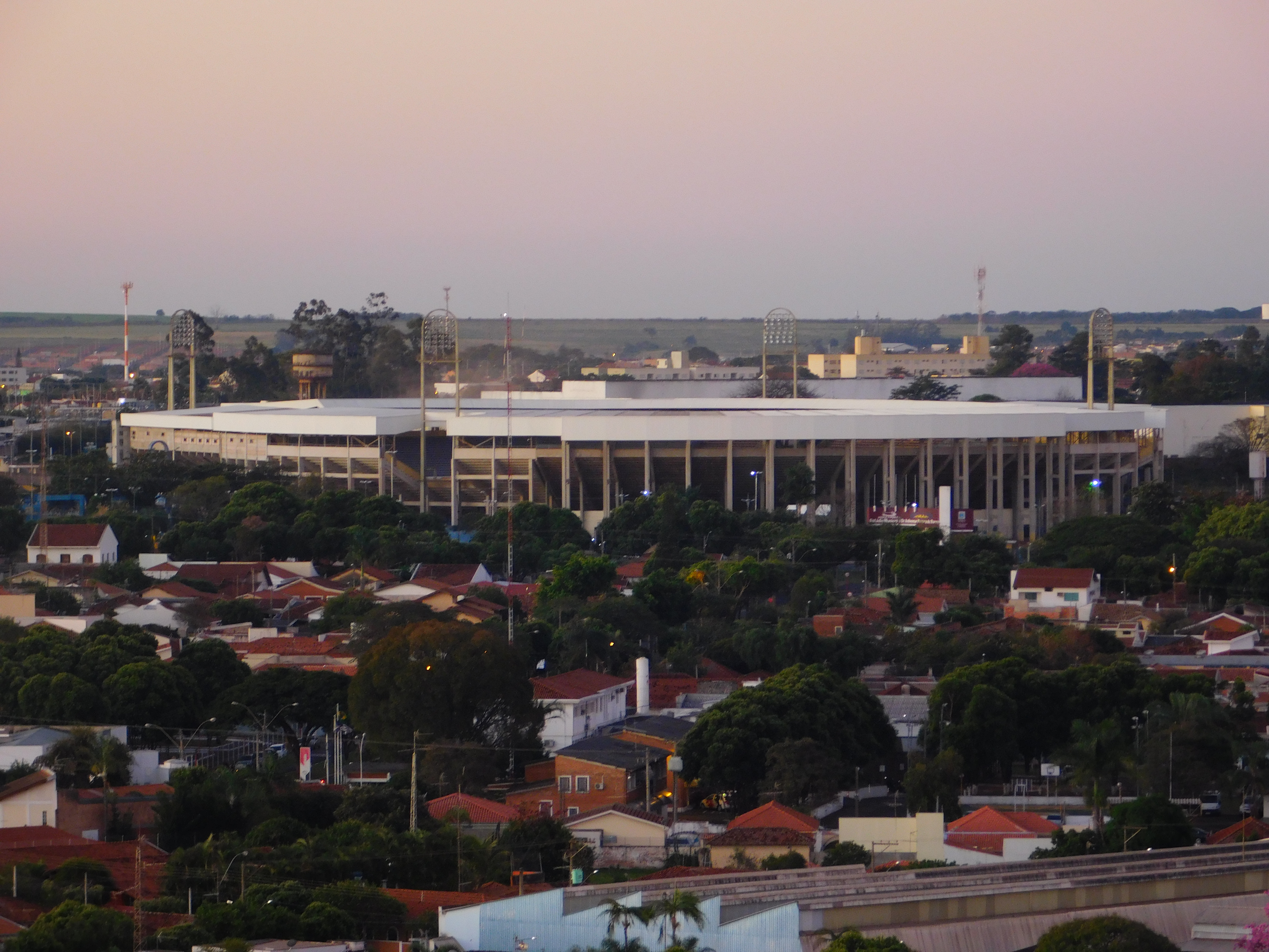 Araraquara is a city in the state of São Paulo in Brazil. It is also known as "the abode of the sun," because of its impressive sunset and because of its hot atmosphere, especially in summer. Ferroviária is the local football (soccer) team of the city. The club plays home matches at Estádio Fonte Luminosa, which has a maximum capacity of 27,000 people.